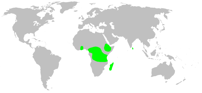 Distribution of the spider family Udubidae, based on the distribution of Zorocratidae minus that of Zorocrates. Original by Sarefo said "This is not at all a precise rendering of the distribution!"